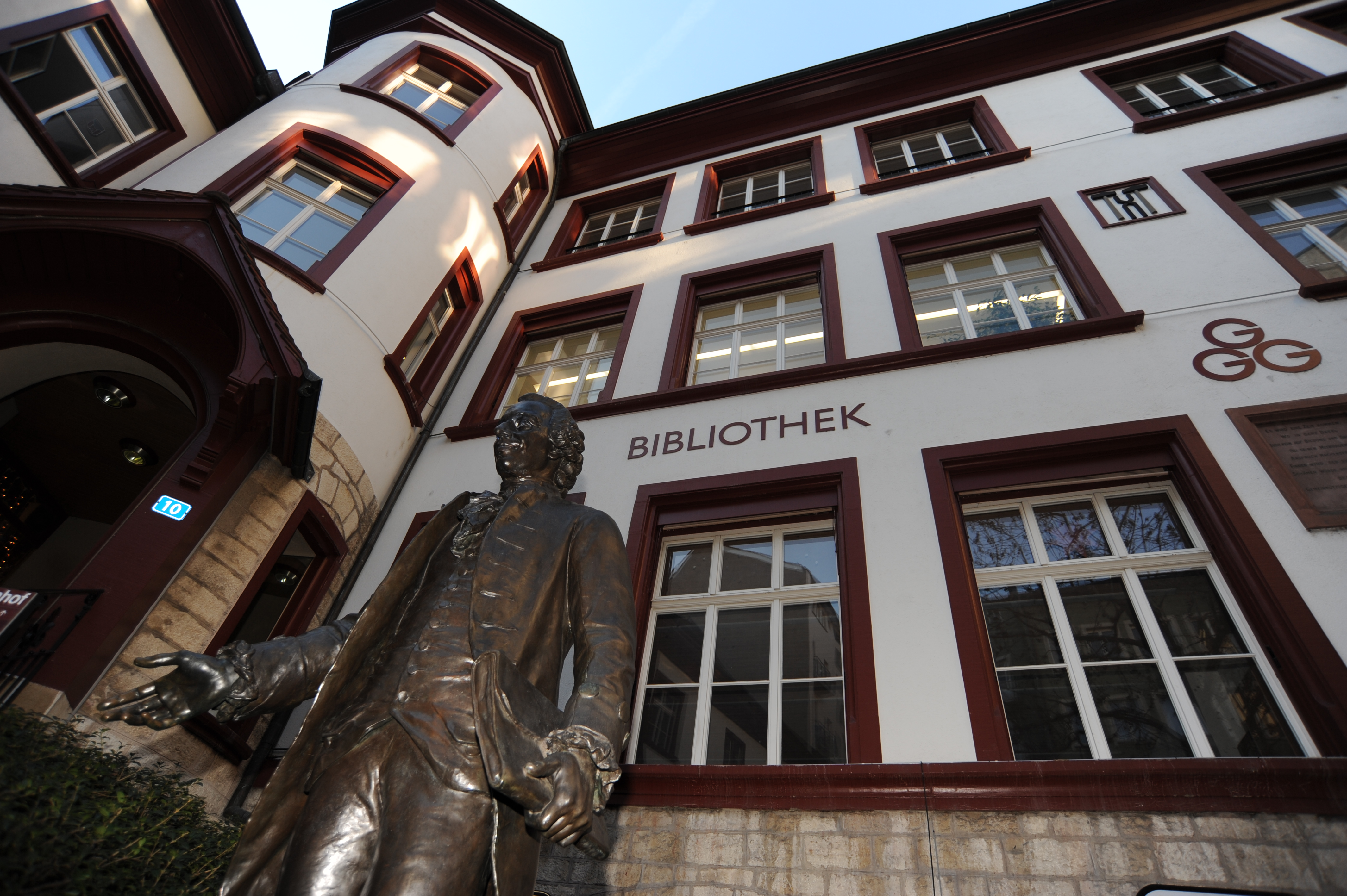 Main building of the Allgemeine Bibliotheken of the GGG in Basle, Switzerland, called "Schmiedenhof" with a statue of GGG-Founder Isaak Iselin on the foreground